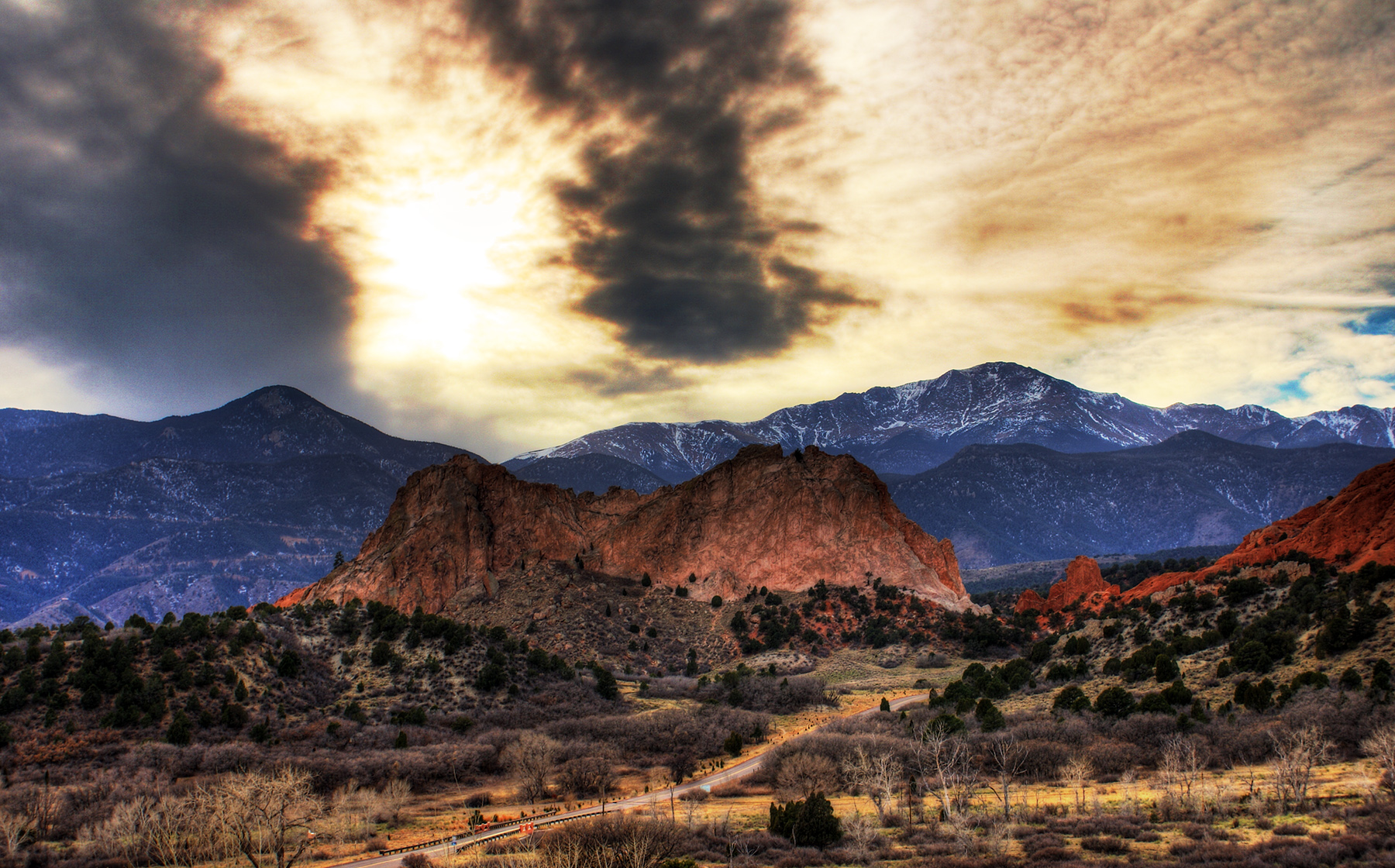 View of Garden of the Gods Park from the Visitor's Center